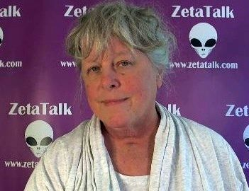 Nancy Lieder on Skype for Moscow TV appearance with Ren TV.